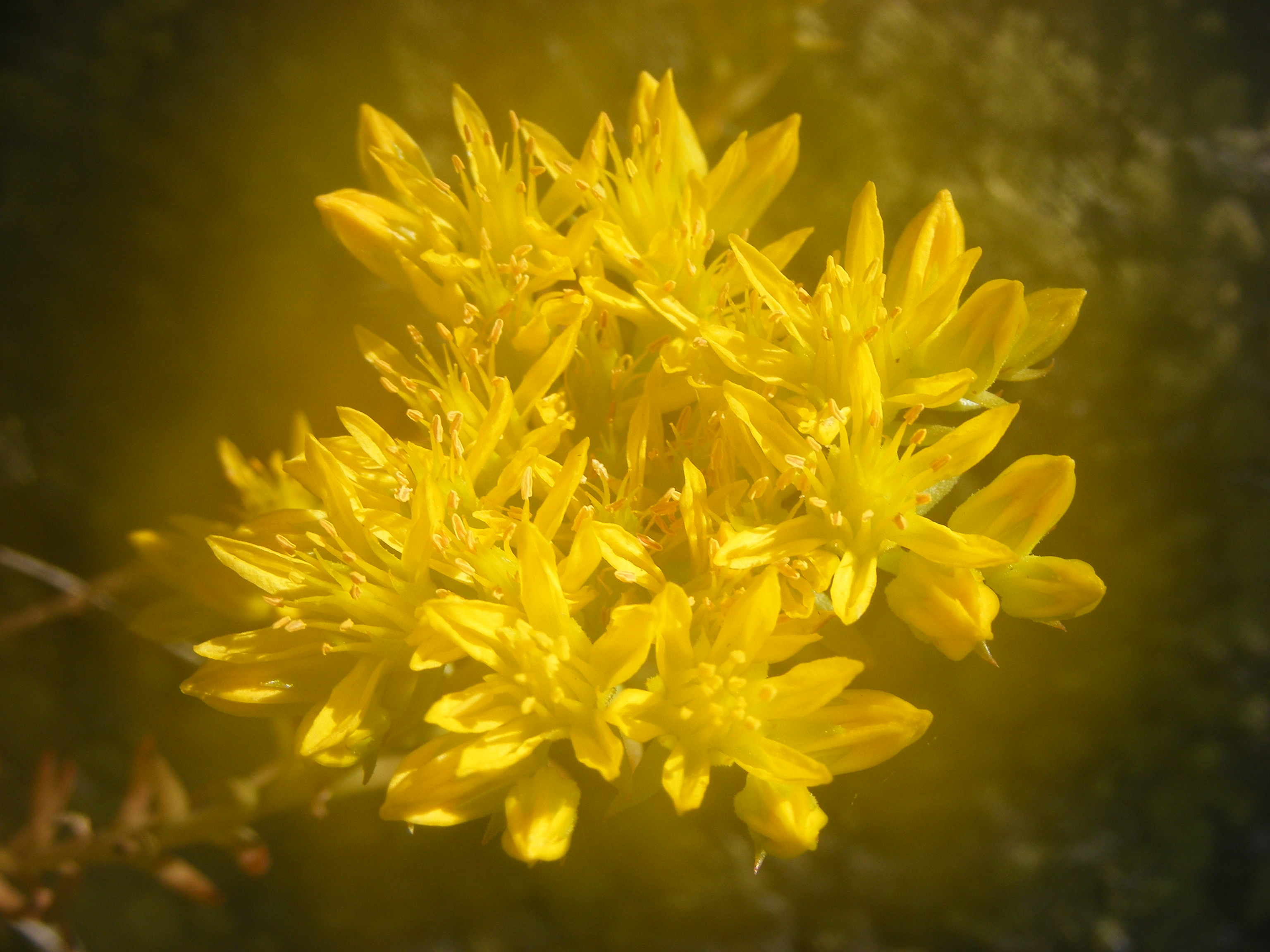 This photo shows Sedum reflexum syn. Sedum rupestre